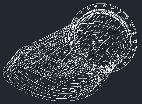 Dredge Suction Mouth